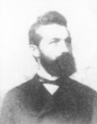 Mathias Kraus (1854-1924), luxembourgish teacher and bookseller.